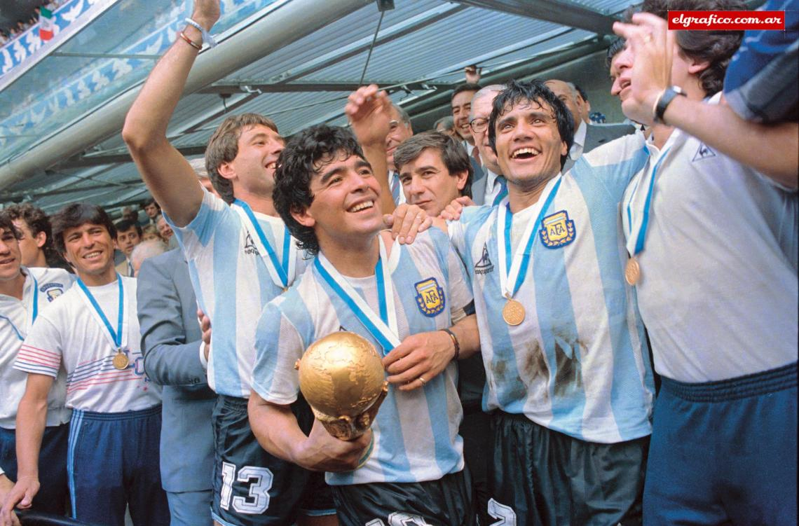 Players of Argentina celebrating at Estadio Azteca.